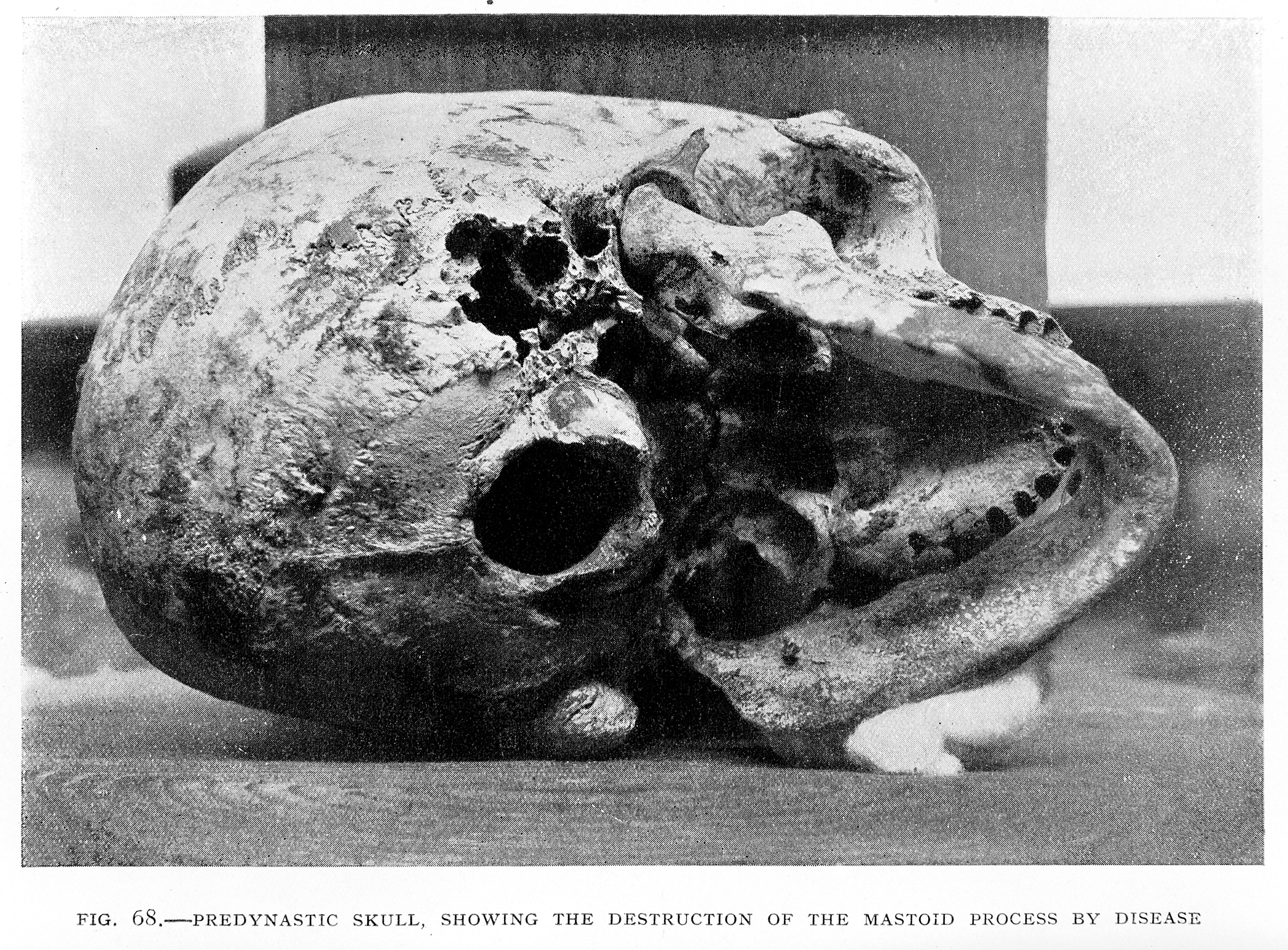 Predynastic Egyptian skull showing destruction of the mastoid process by disease. General Collections Keywords: egyptology; Paleopathology; Grafton Elliot Smith; Warren R. Dawson